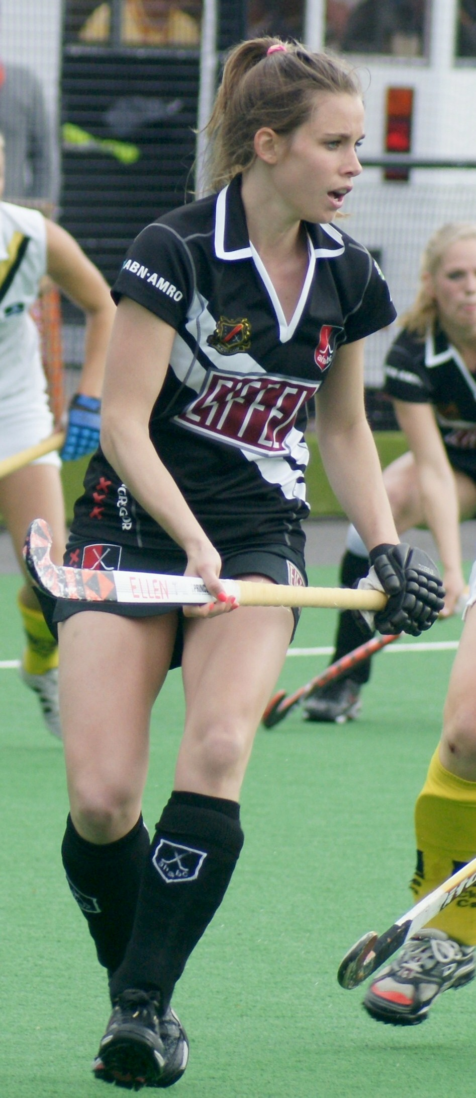 Ellen Hoog: a key player in the Dutch Beijing Olympics gold medal winning team.